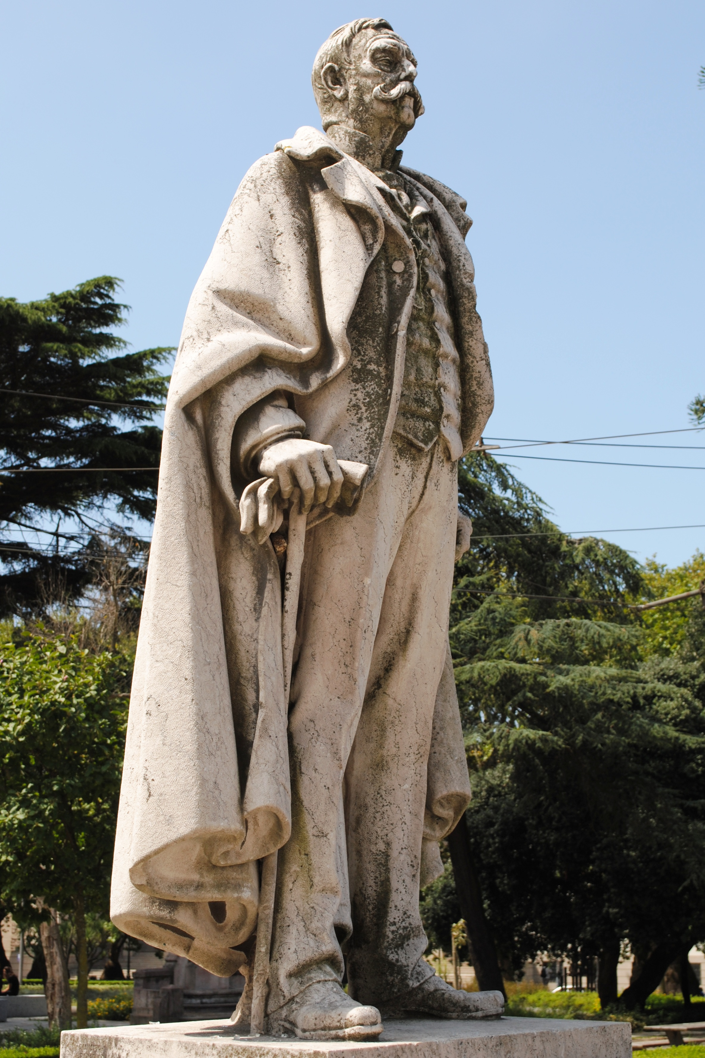 See title and categories.